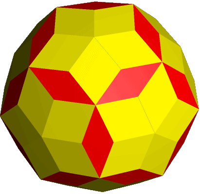 Rhombic enneacontahedron VRML Model